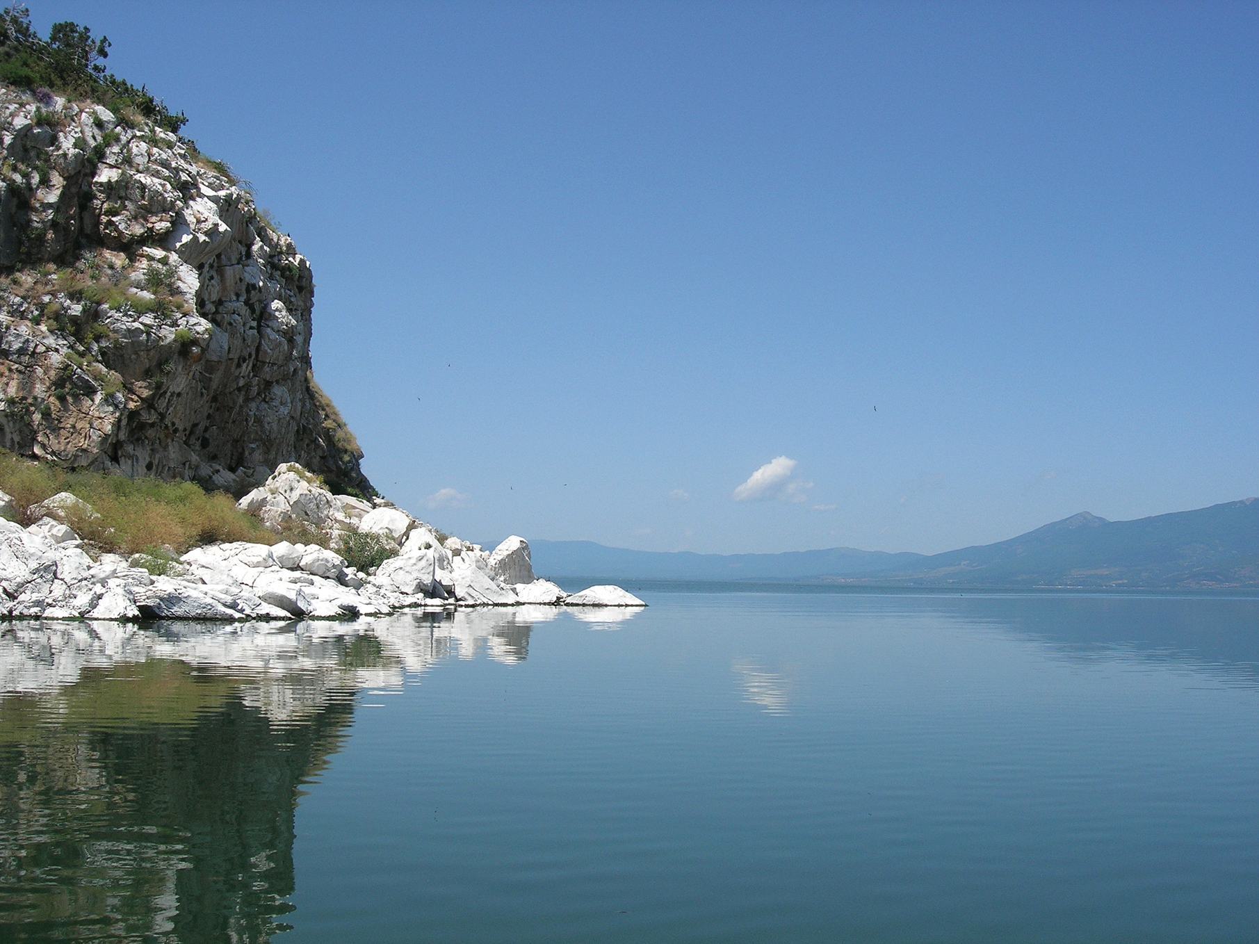 Island Golem Grad, Lake Prespa